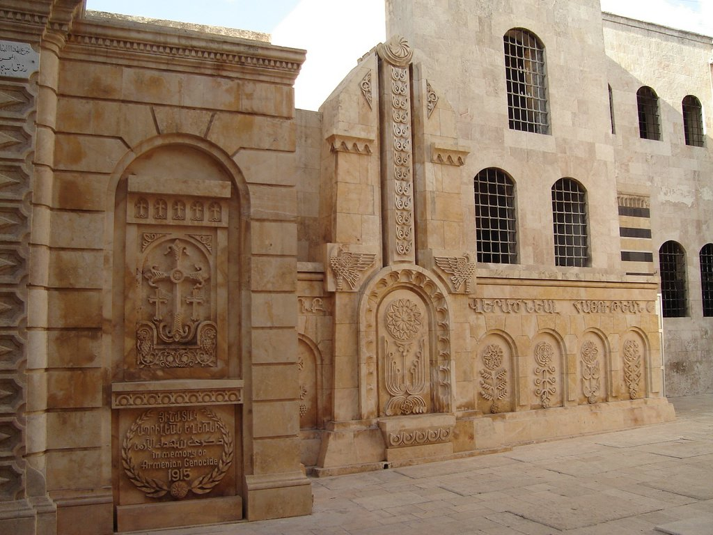 The Armenian Genocide memorial at the Forty Martys Armenian church in Aleppo, Syria.